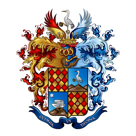 Newly created family crest following old images and descriptions.